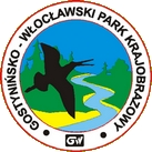 Logo of Gostynin-Włocławek Landscape Park